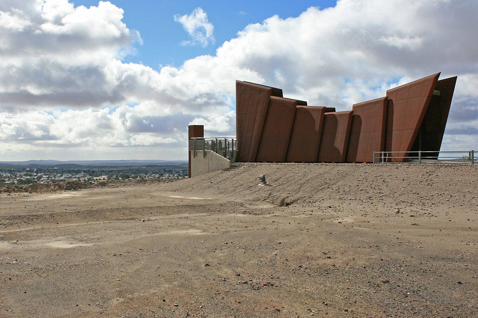 Miner's Memorial on Line of Lode mine, commemorating the more than 800 workers that lost their lives working the mine. Broken Hill, NSW, Australia.